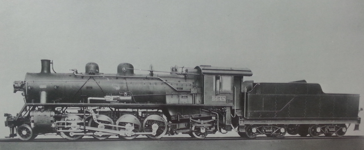 Builder's photo of Manchukuo National Railway Mikaro6648.